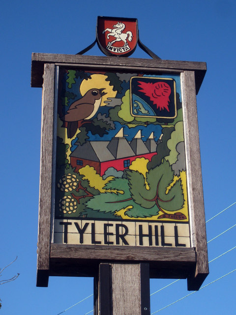 Tyler Hill Village Sign. The oast house depicted is 1501955